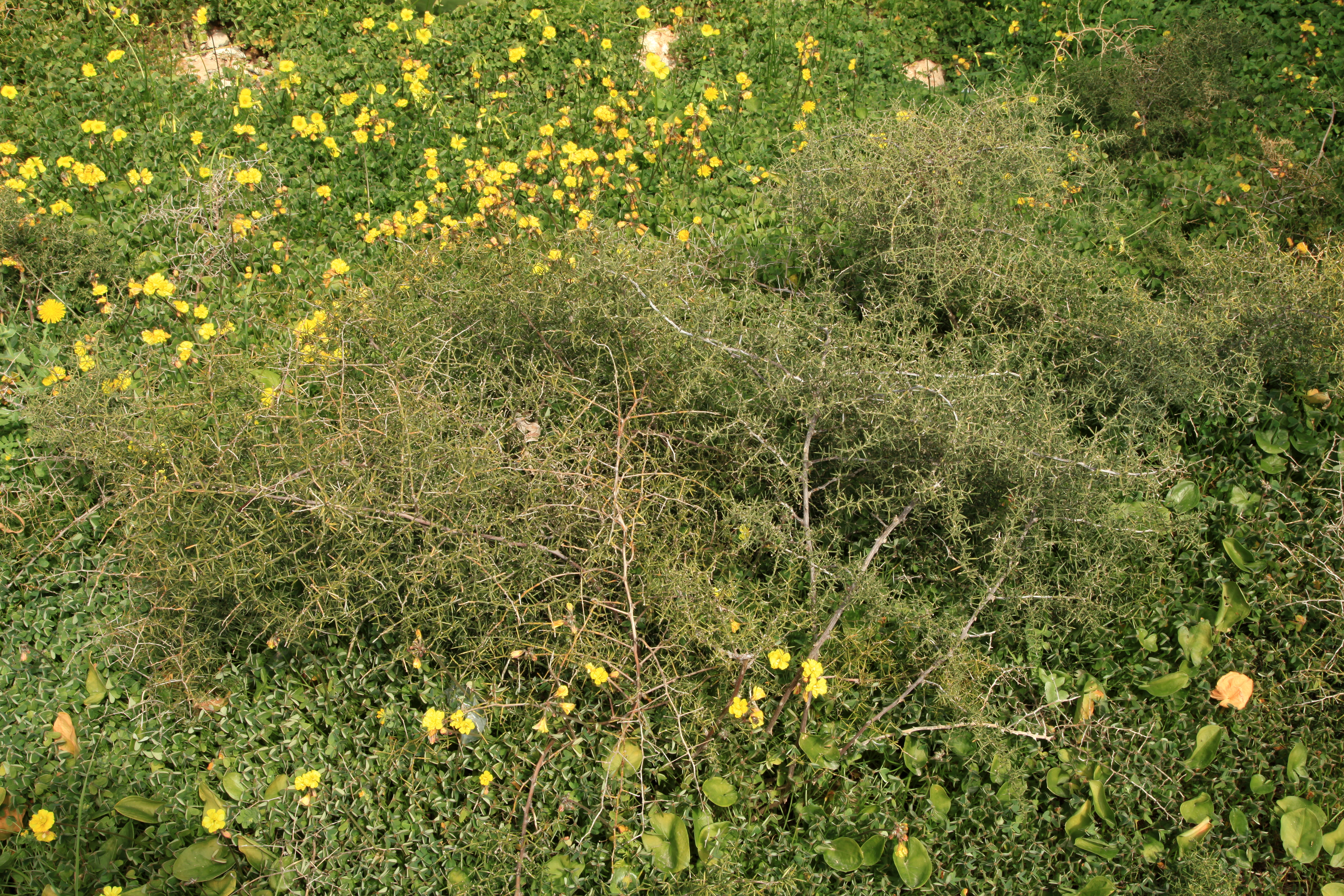 Asparagus aphyllus growing at Triq l-Armier in Mellieħa, Malta